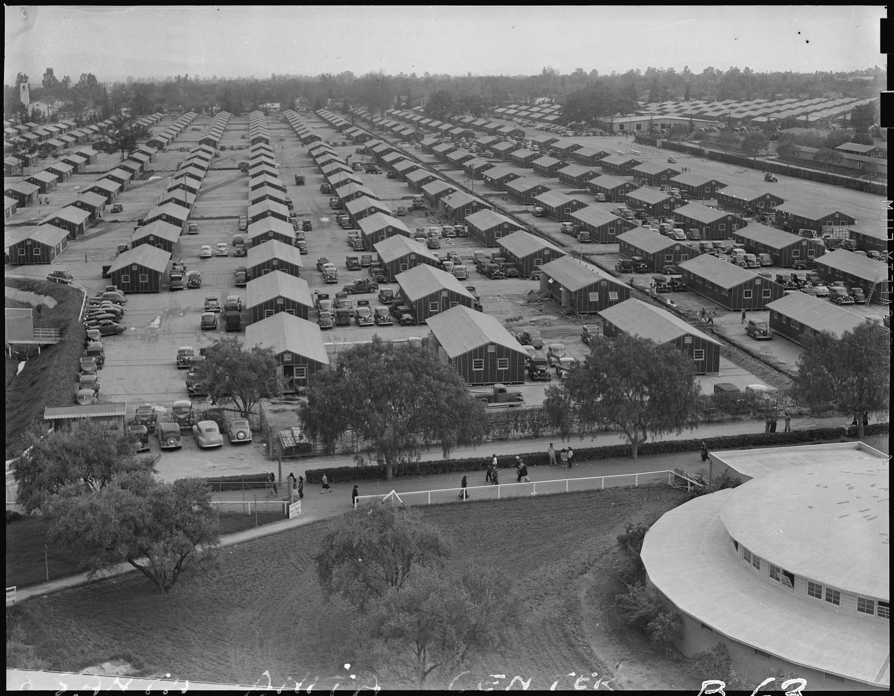 Scope and content: The full caption for this photograph reads: Santa Anita Assembly Center, Arcadia, California. A panoramic view of the Santa Anita assembly center where evacuees from this section await transfer to War Relocation Authority centers to spend the duration.